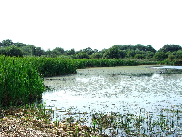 Gosforth Park Nature Reserve. Set amongst acres of woodland this reserve is run by the Northumbria Natural History Society. Deer, otter and red squirrels live in harmony with many species of bird.